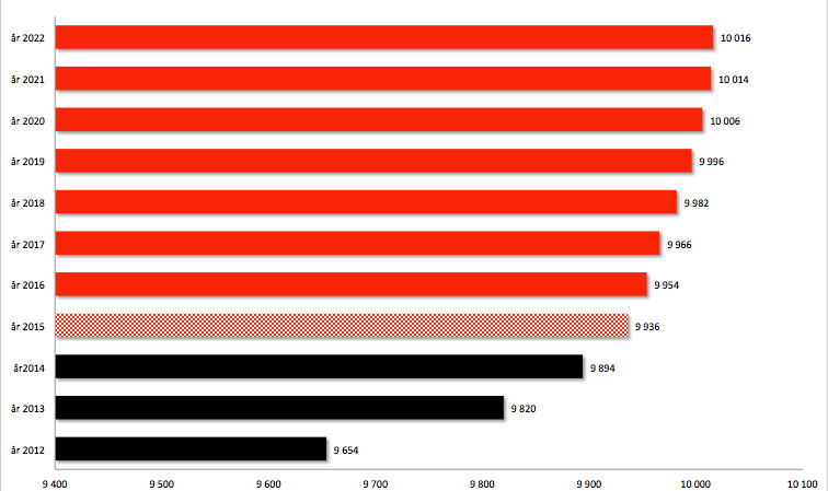 Vårberg, Stockholm